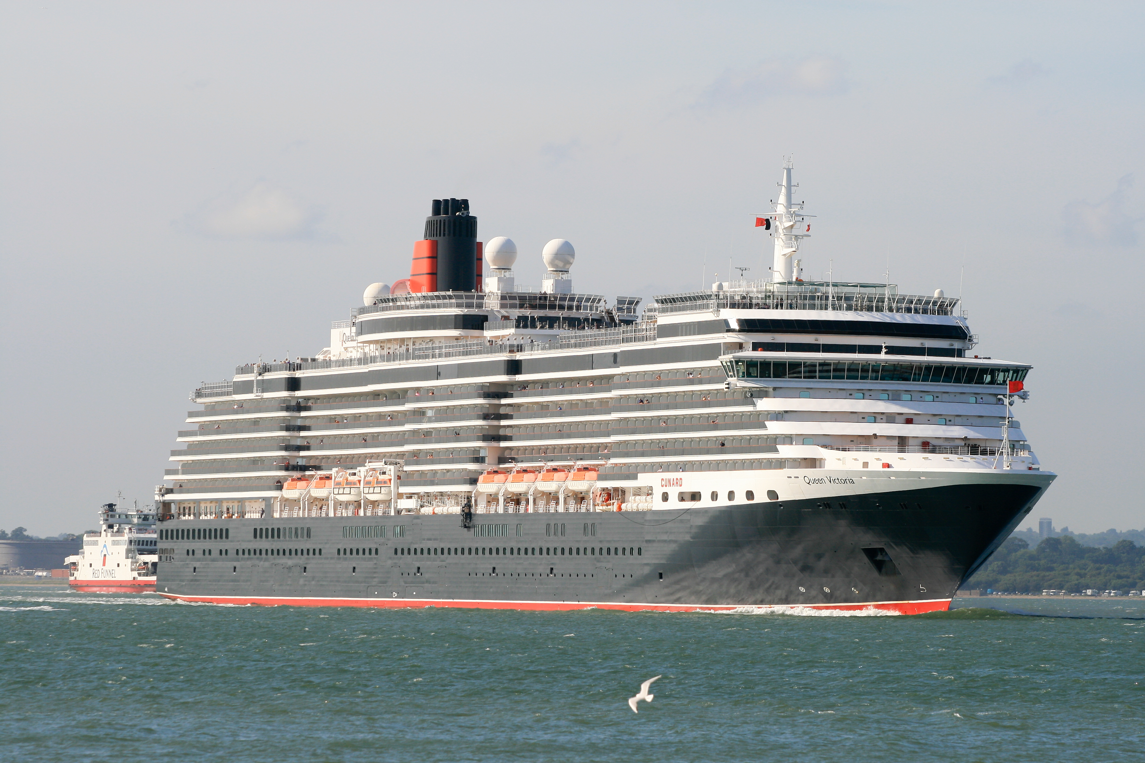 Cunard cruise liner Queen Victoria approaching Calshot Spit at the exit from Southampton Water into The Solent outward bound on 30 June 2-13 from Southampton to Stavanger, Norway and the Faroe Islands. In command is Cunard's first female captain, Faroese born Inger Klein Olsen. Wikipedia editors are reminded that the copyright remains with the photographer, and that the terms of the Creative Commons (CC), Attribution (BY), Share Alike (SA) CC-BY-SA-3.0 that allow editors to reuse this image apply to Wikipedia editors also, as they do to other re-users of this image. Breaches of the licence terms are not only unlawful, but are also antisocial, in that breaches discourage photographers from making their images freely available to everyone without payment. Wikipedia re-users are also reminded of the license terms that derivatives of this image should not imply that the adaptation is endorsed or approved by the author or copyright holder. Neither should derivatives be presented as the creation of the author or copyright holder, while clearly stating that the adaptation is a derivative of the original. Attribution online should be in this format Brian Burnell. On the printed page, a simpler form is acceptable - example: "Image: Brian Burnell".